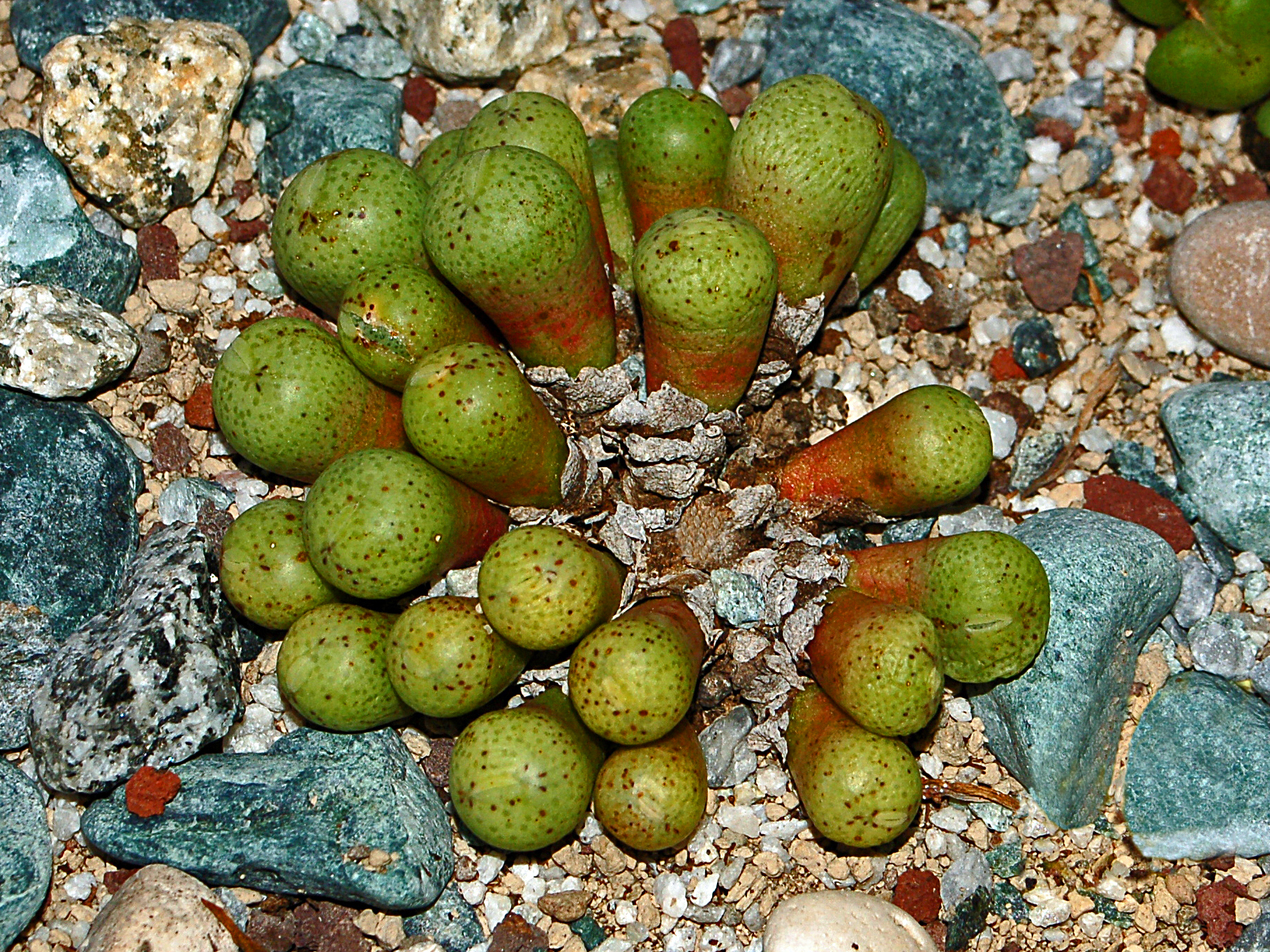 Conophytum jucundum at the Orto Botanico dell'Università di Genova